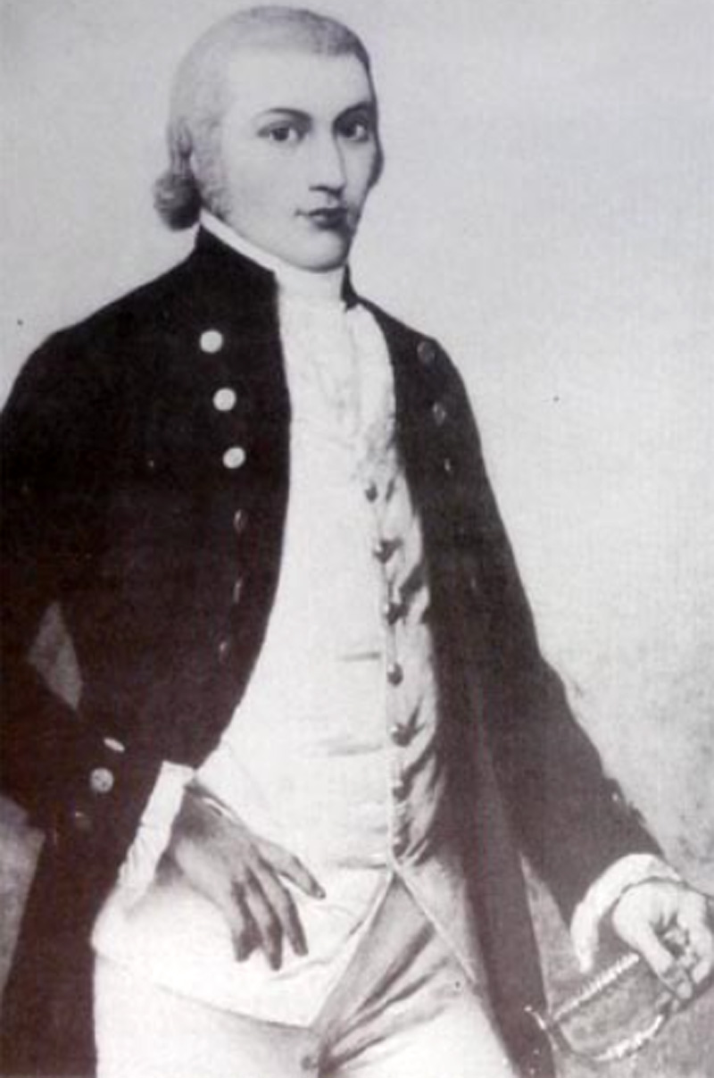 William Llewellyn, owner of Court Colman, Wales